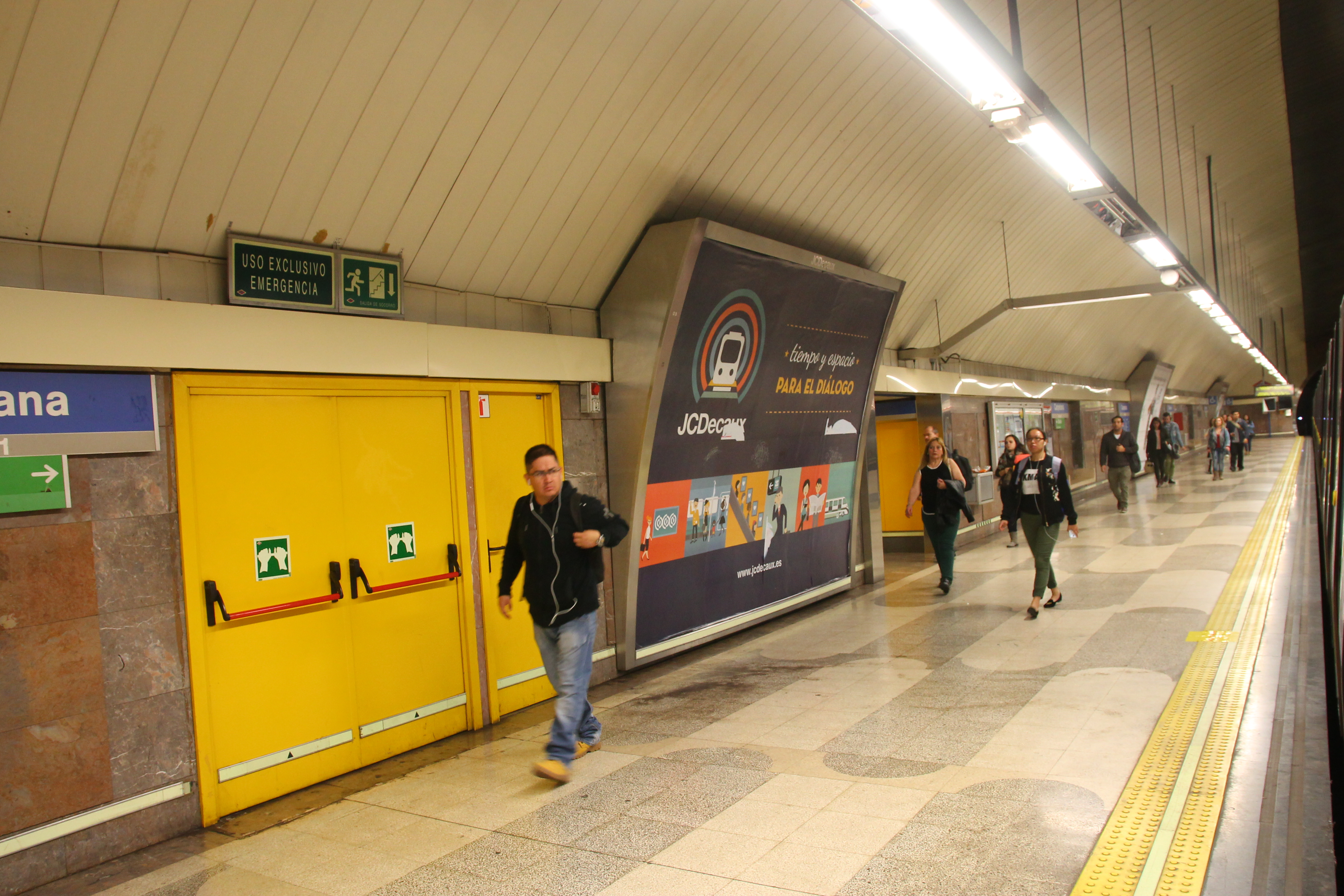 Estación de Carpetana